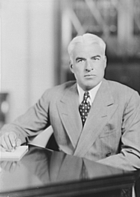 Mr. Edward R. Stettinius, Jr., former director, Priorities Division, OPM (Office of Production Management), and currently (Sept. 2, 1941) lend-lease administrator